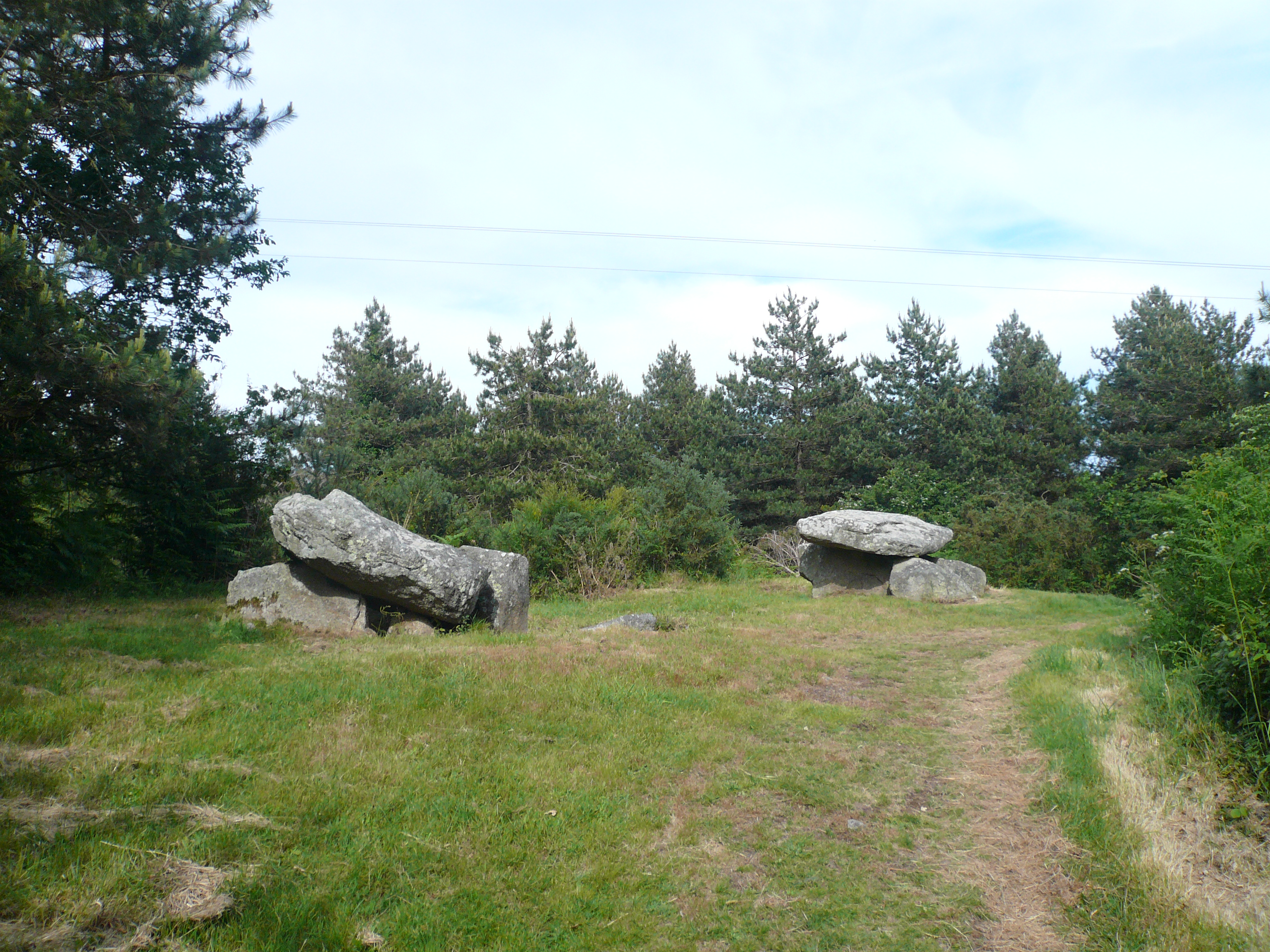 Global view of dolmens of Kervadol, commune of Plobannalec-Lesconil, Finistère, Brittany, France.